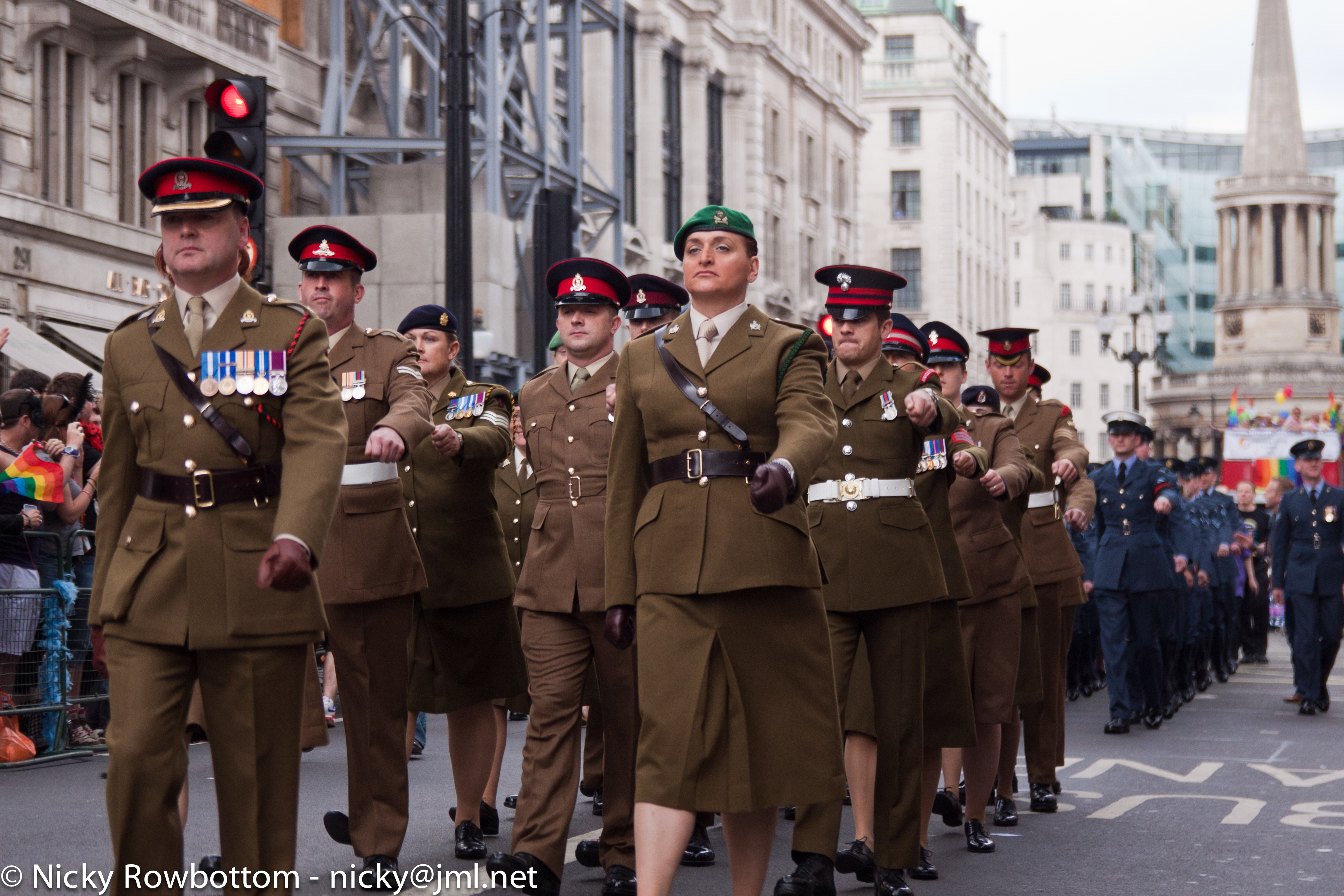 Army in the parade.